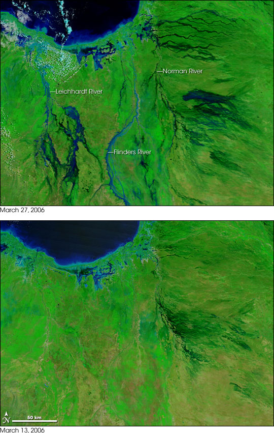 In the wake of Tropical Cyclone Larry, which plowed across Queensland the previous week, widespread flooding was affecting the region around the Gulf of Carpentaria on March 27, 2006. In this pair of false-color images, vegetation is green, naturally bare (or sparsely vegetated) ground is tan or pinkish-tan, and water is blue. Many rivers and streams that drain into the Gulf (top left) are swollen with flood water in the March 27 image, whereas on March 13, only dry riverbeds dissected the landscape. Among the rivers that experienced significant flooding were the Norman, the Flinders, and the Leichhardt Rivers. East of the Norman River and in the Leichhardt River basin, in the left side of the images, water has pooled over a large area, making the area seem like swamp land. According to an article on the Australian Broadcasting Corporation’s Website, the Leichhardt was so flooded that sharks were seen far inland of their normal location.